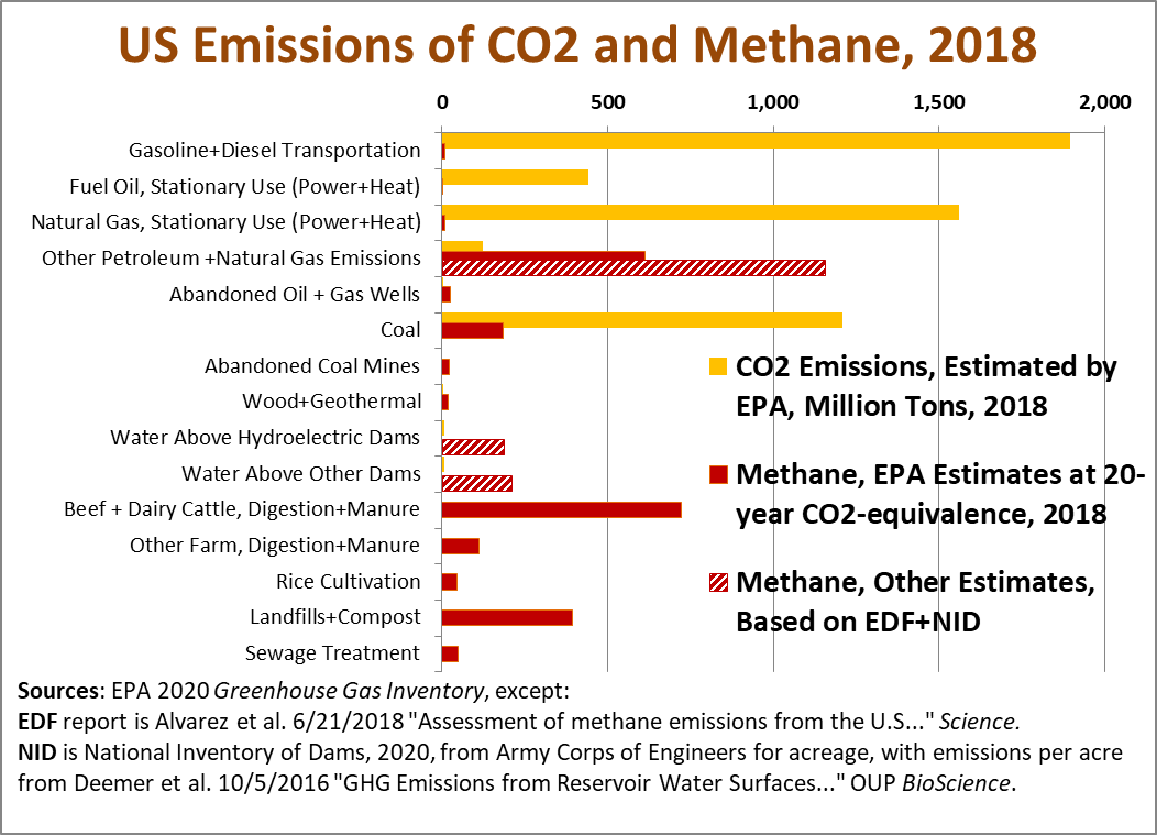 Source of data: EPA 2020 Greenhouse Gas Inventory, except: EDF report is Alvarez et al. 6/21/2018 "Assessment of methane emissions from the U.S..." Science. NID is National Inventory of Dams, 2020, from Army Corps of Engineers for acreage Emissions per acre from Deemer et al. 10/5/2016 "GHG Emissions from Reservoir Water Surfaces..." OUP BioScience.